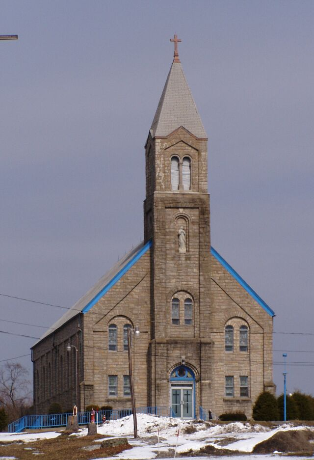 St. Joseph's Catholic Church, Otis, LaPorte County, Indiana